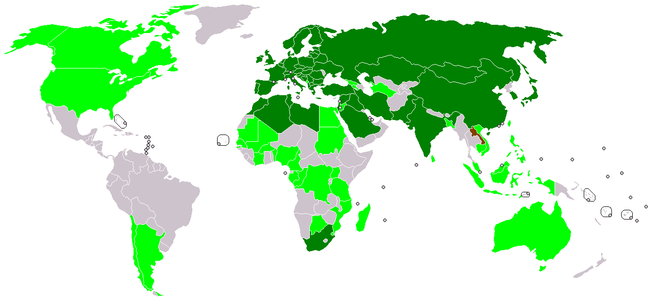 UIC members: dark green - active, light green - associate, brown - affiliate.png